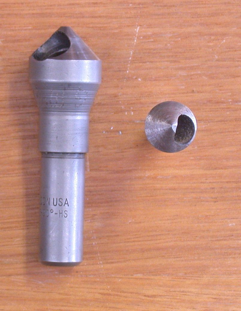 A photograph of a cross-hole deburrer or cross-hole countersink.